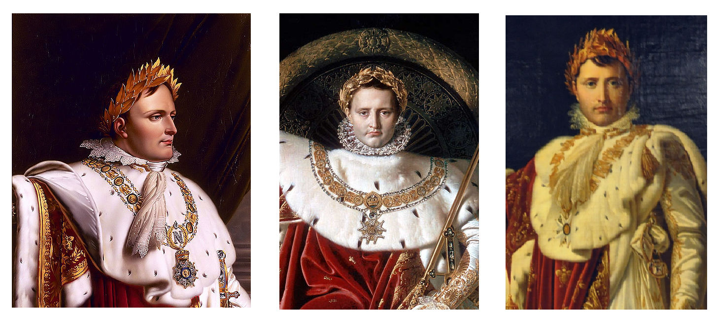 Portraits of Napoleon I